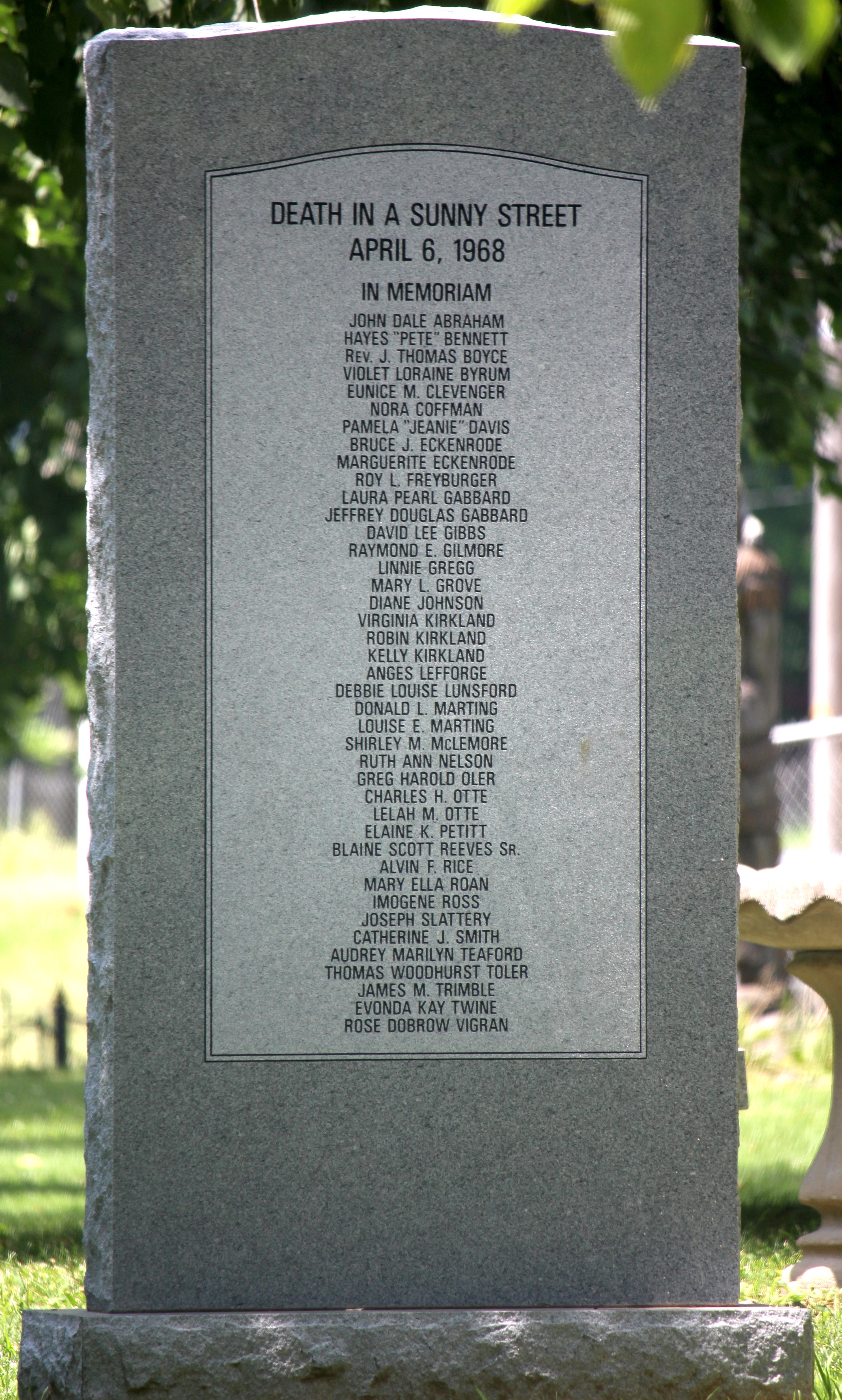 A monument to thoe 41 killed in a natural gas-related explosion in Richmond, Indiana, April 6, 1968. It is displayed on the grounds of the Wayne County Historical Museum in downtown Richmond.